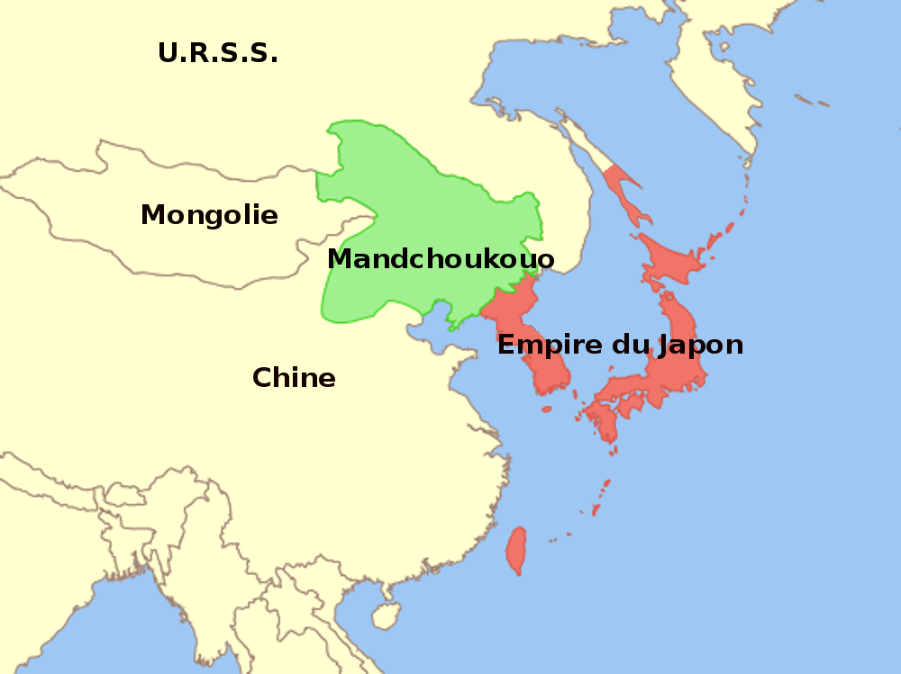 China and Mandchukuo in french